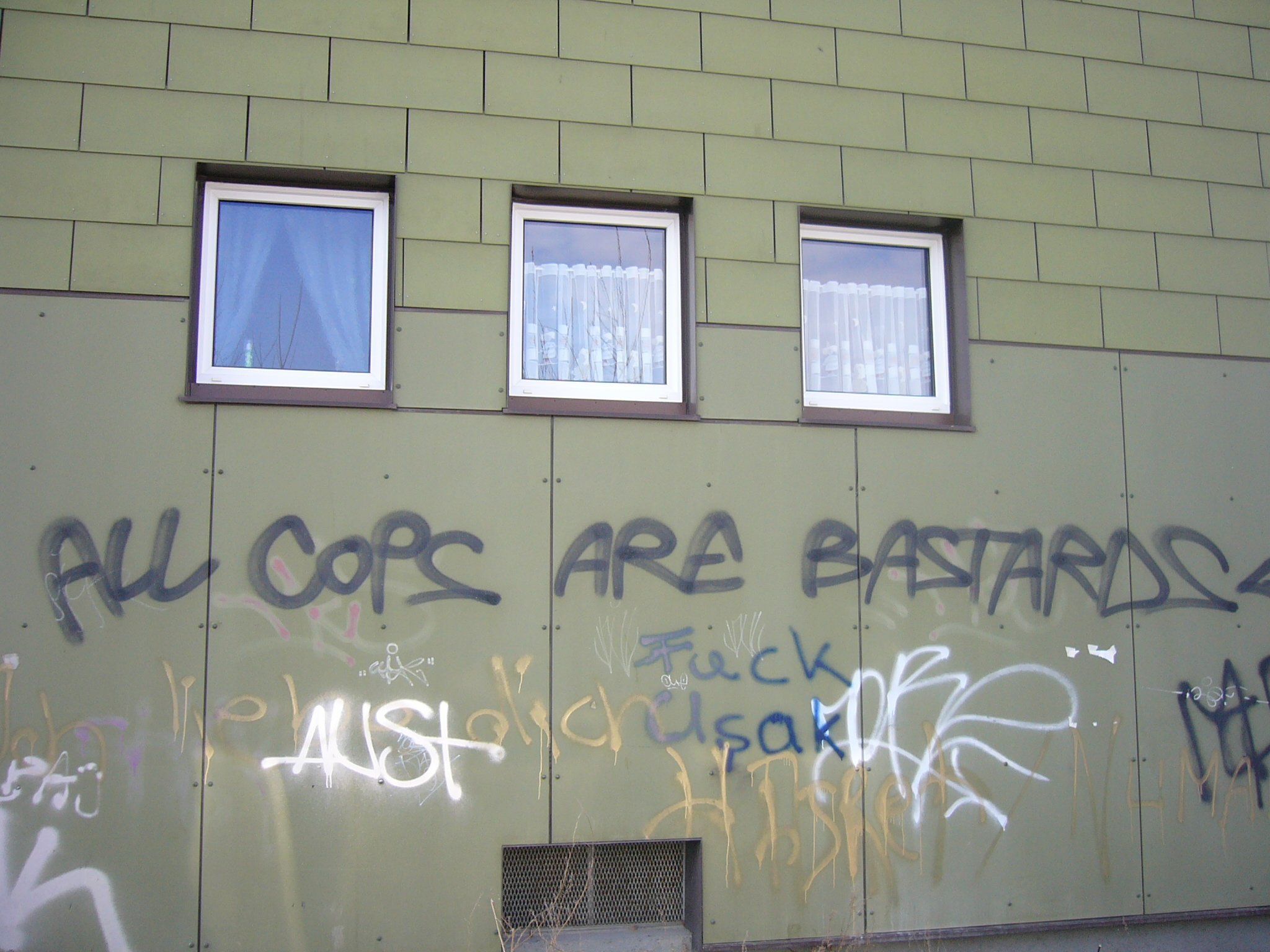 „All Cops Are Bastards“-Graffiti